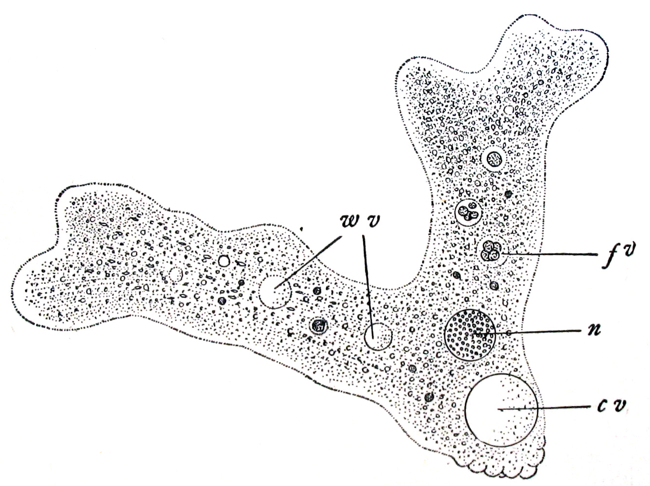 Original figure legend: "Amoeba Proteus, an animal consisting of a single naked cell, x 280 (From Sedgwick and Wilson's Biology.) n. the nucleus; w.v. water-vacuoles; c.v. contractile vacuoles; f.v. food-vacuole."